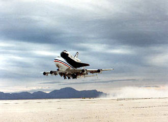 Shuttle Carrier Aircraft, Columbia, White Sands Space Harbor